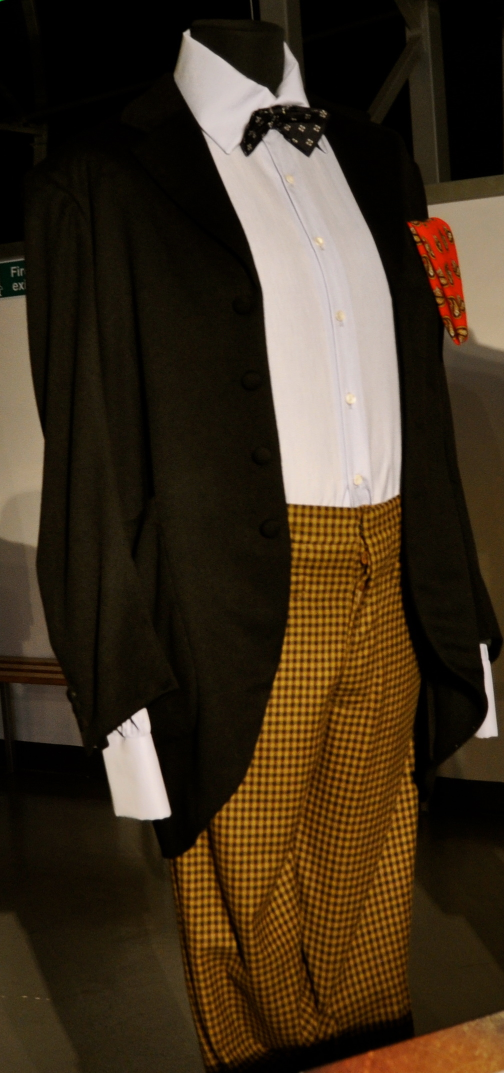 DWE Cardiff Bay, Port Teigr November 2016 Doctor Who Experience